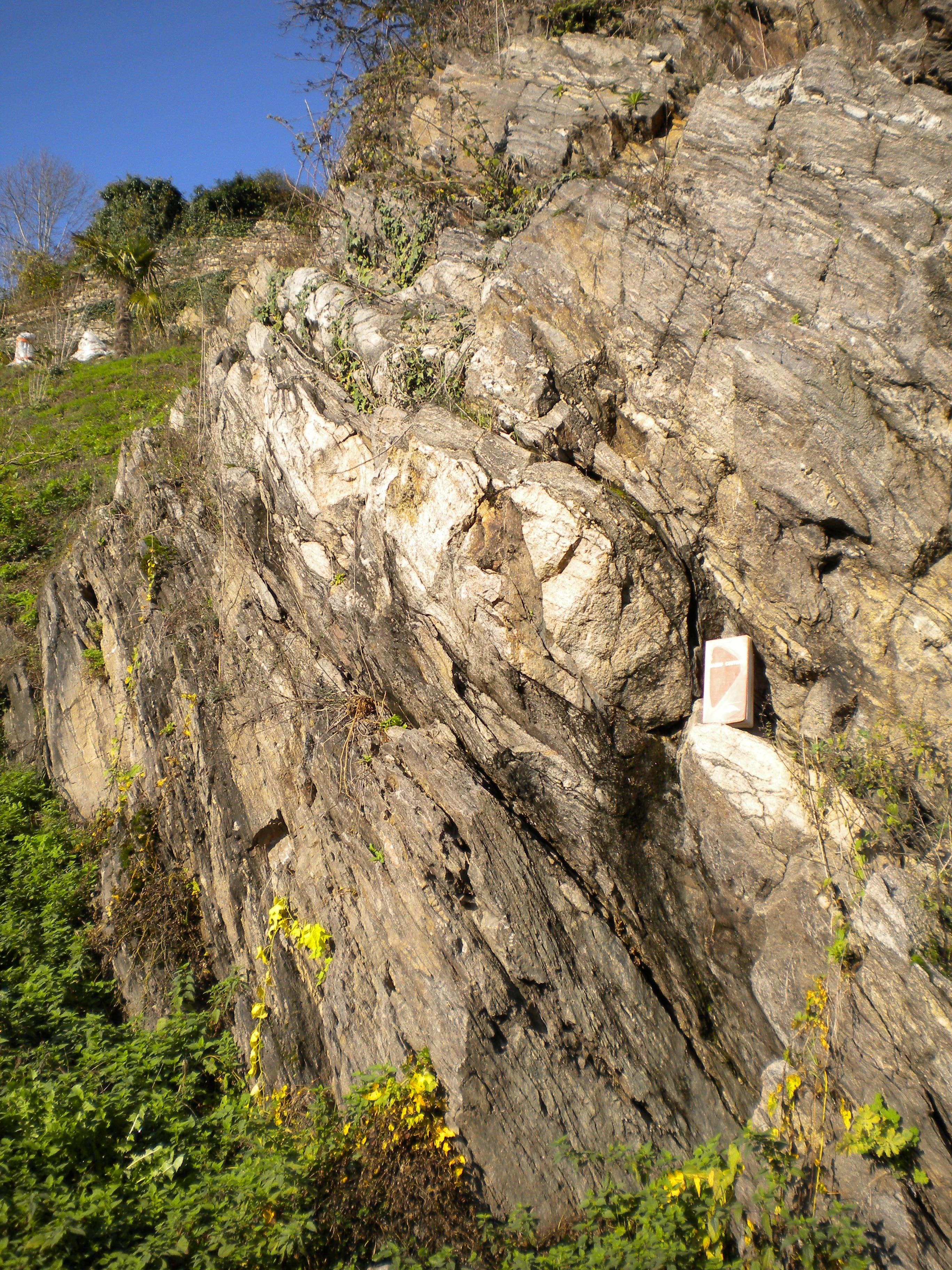 Neoproterozoic plagioclase-bearing paragneis sequence below Nontron Château, Dordogne, France. Original grauwacke layers (white) within a flysch sequence are boudinaged. The foliation dip is about 60 ° to the NNE.